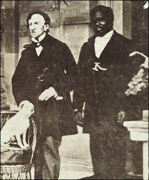 Dr James Barry with John, a servant, and his dog, Psyche.